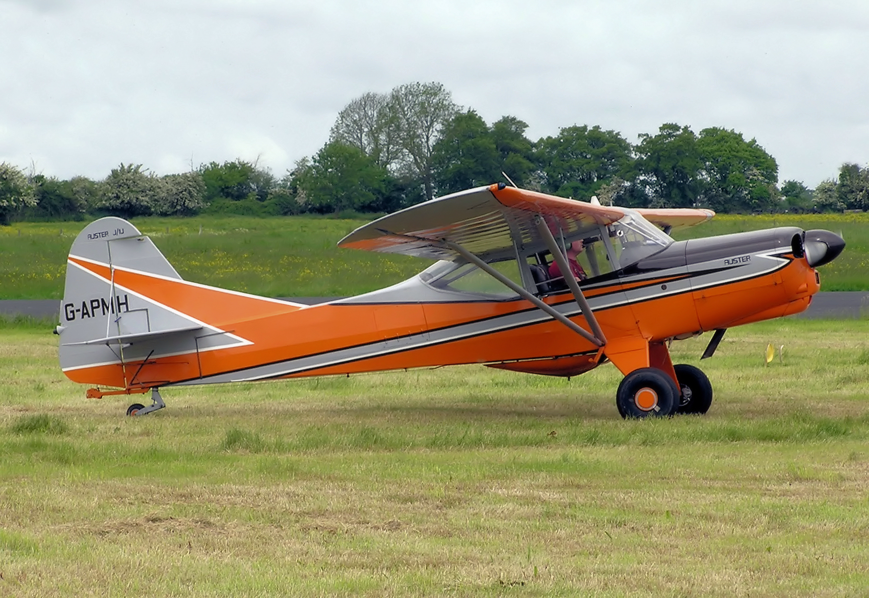 Auster J/1U Workmaster (G-APMH) at a light aircraft rally (the 2006 Great Vintage Flying Weekend) at Keevil Airfield, Wiltshire, England. This aircraft was built in 1958. (Note that I seem to read J/1J on the fin or is it a worn J/1U? All over the internet it’s called a J/1U.)